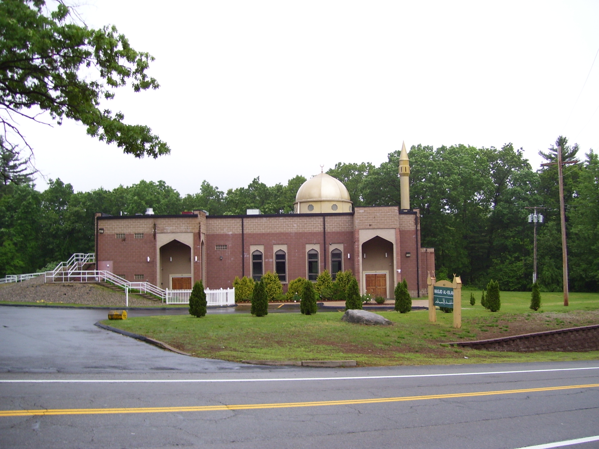 This is my 2008 photo of the Mosque in North Smithfield, Rhode Island.